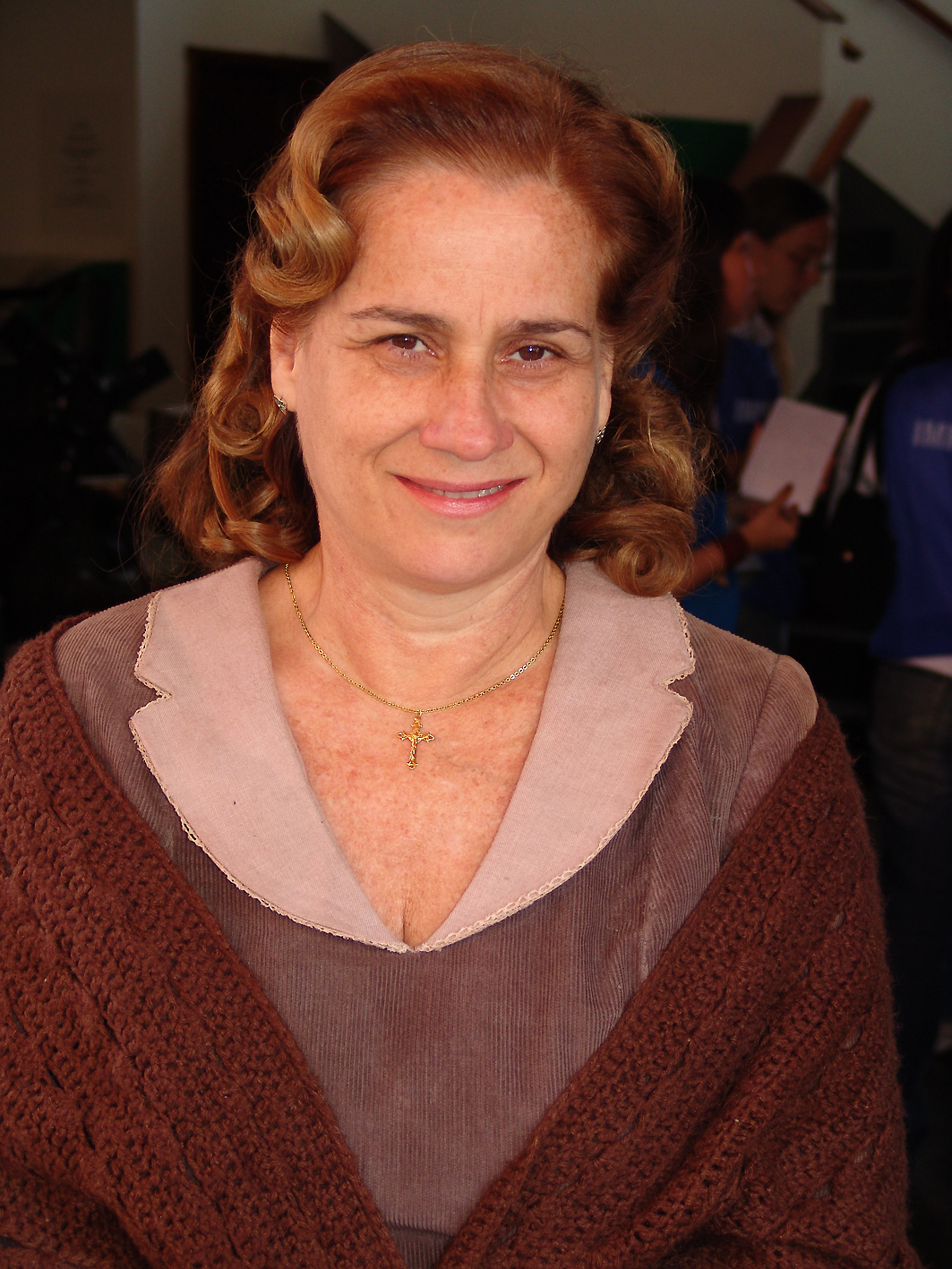 Brazilian actress Vera Holtz.